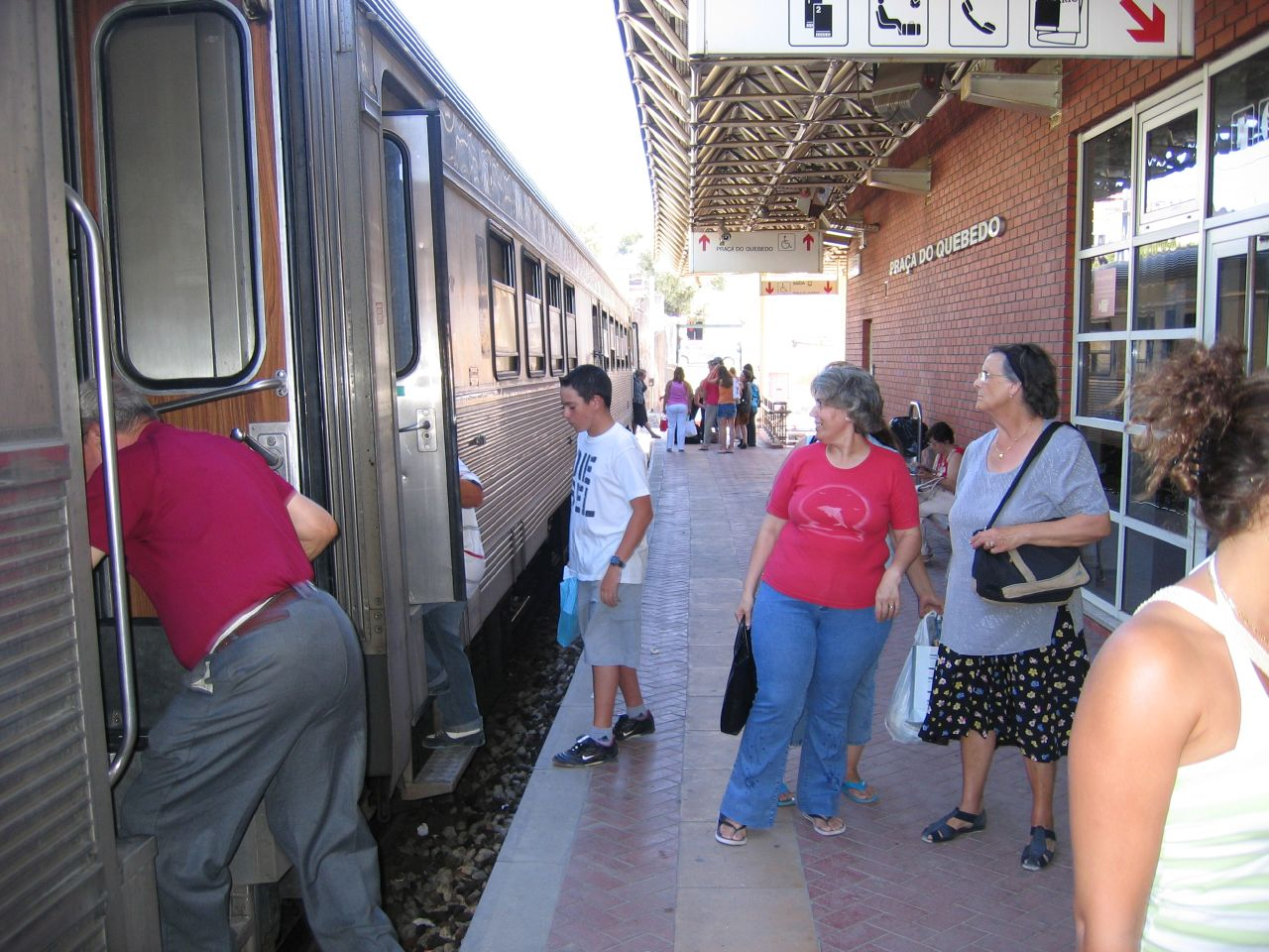 Railway Station Praça do Quebedo - Setúbal Portugal